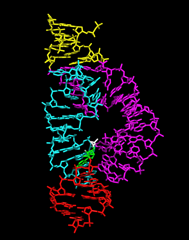 Sticks bond diagram of full-length hammerhead ribozyme, as determined from the 2.2 Å crystal structure. The figure was created with PyMOL Stem I is in magenta and yellow, stem II is cyan, and stem III is red. The cleavage site nucleotide, C17, is shown in green, and the scissile phosphate is white.